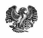 The Estonian Defence League insignia